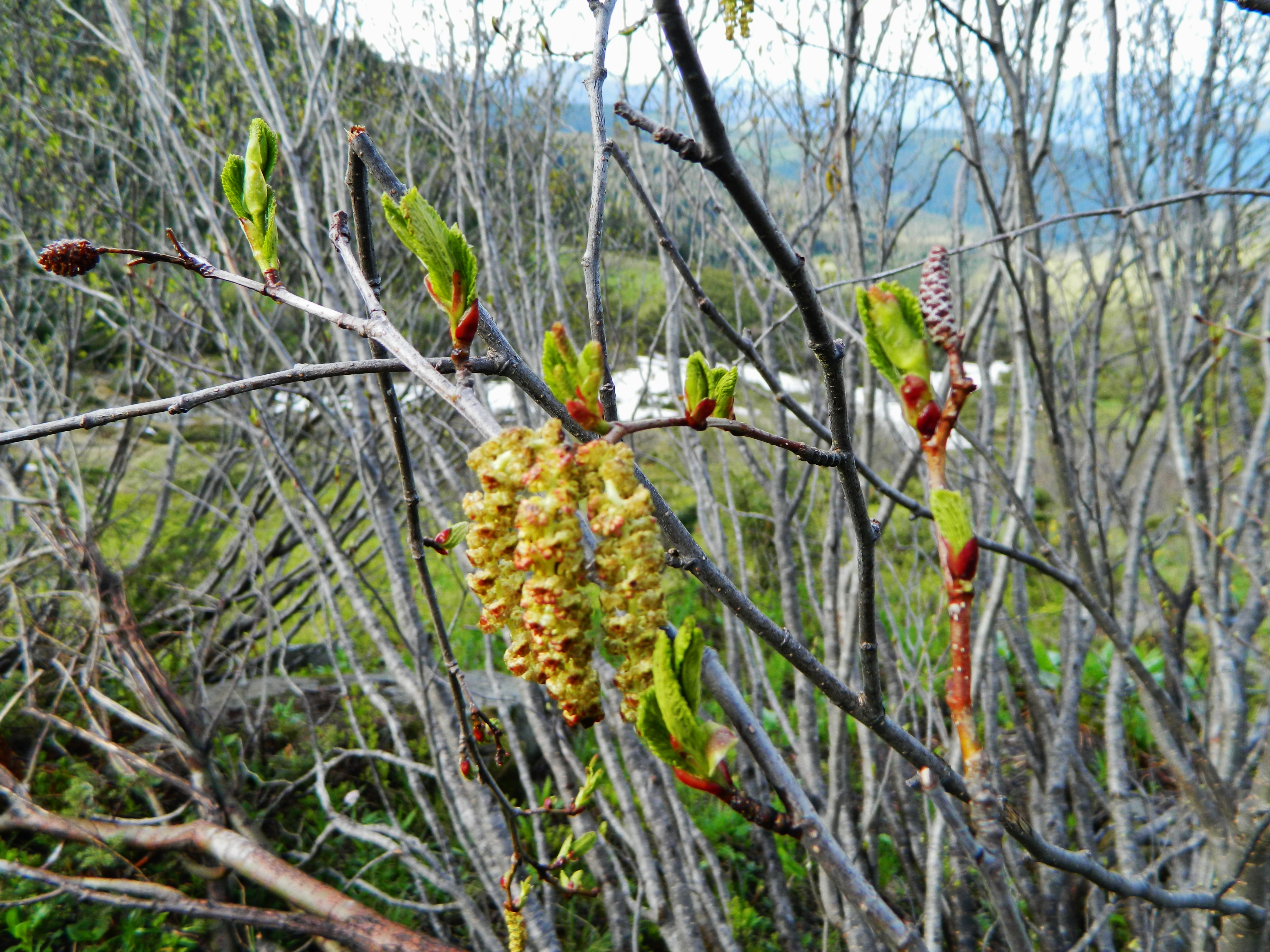 Catkins of Alnus viridis on Pozhyzhevska, Chornohora range, Ukrainian Carpathians